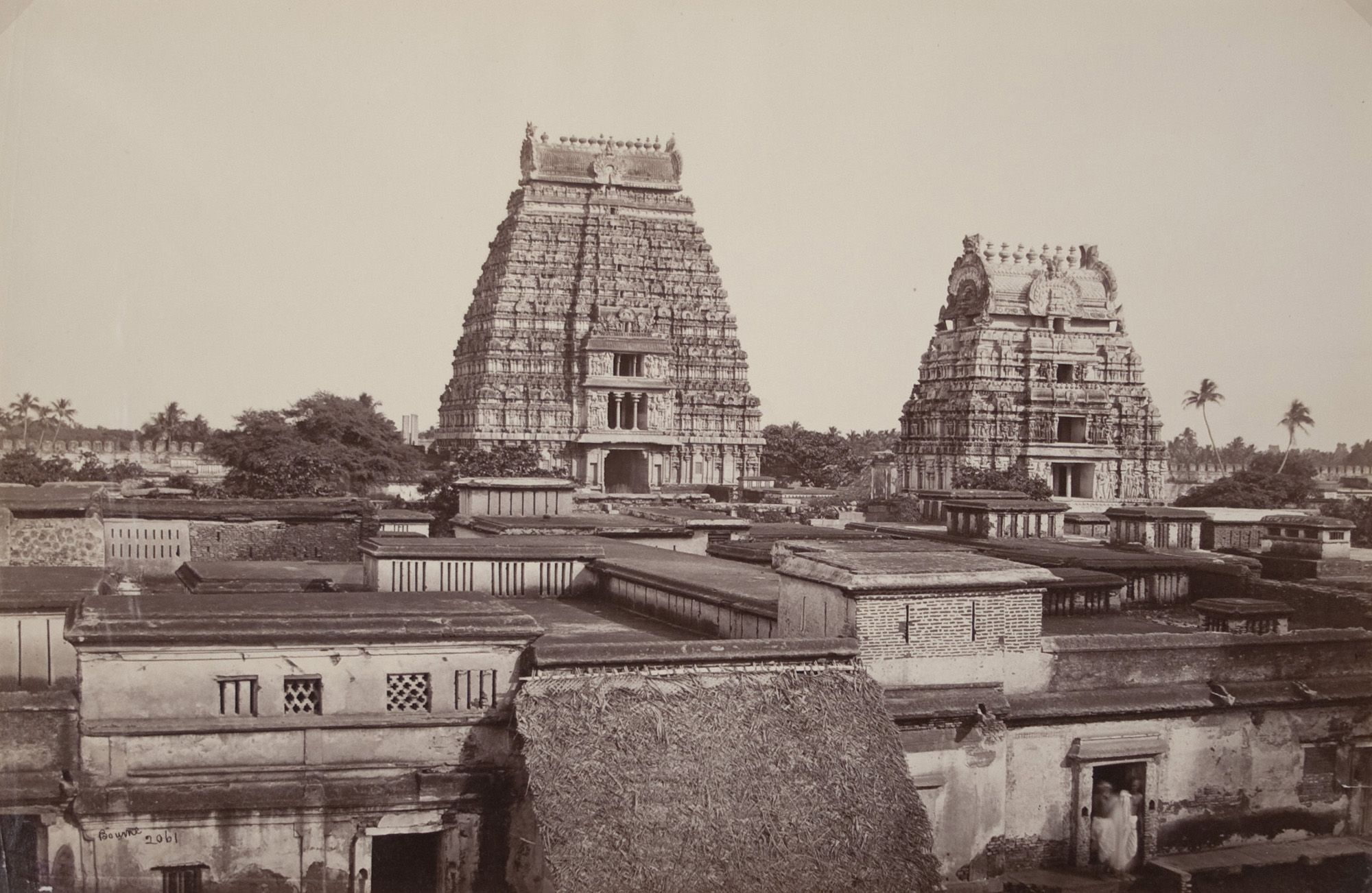 One of the Gopuras (tower) of the Sri Ranganatha Swamy temple, Srirangam, India